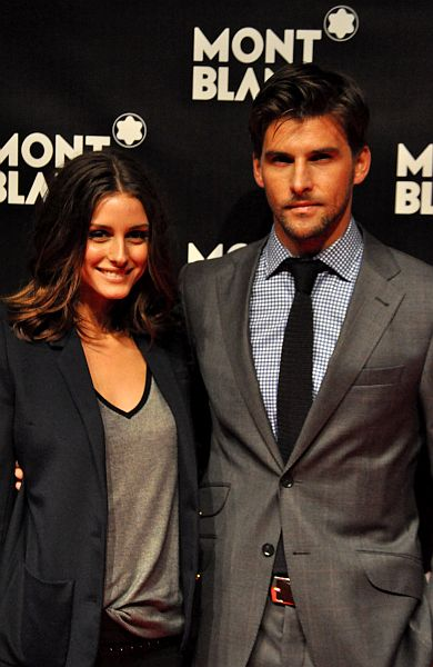 Television Personality Olivia Palermo and model Johannes Huebl attend "To John - With Peace & Love" Global Launch Of The Montblanc John Lennon Edition on September 12, 2010 at Jazz at Lincoln Center in New York City. (Photo © Nick Stepowyj)